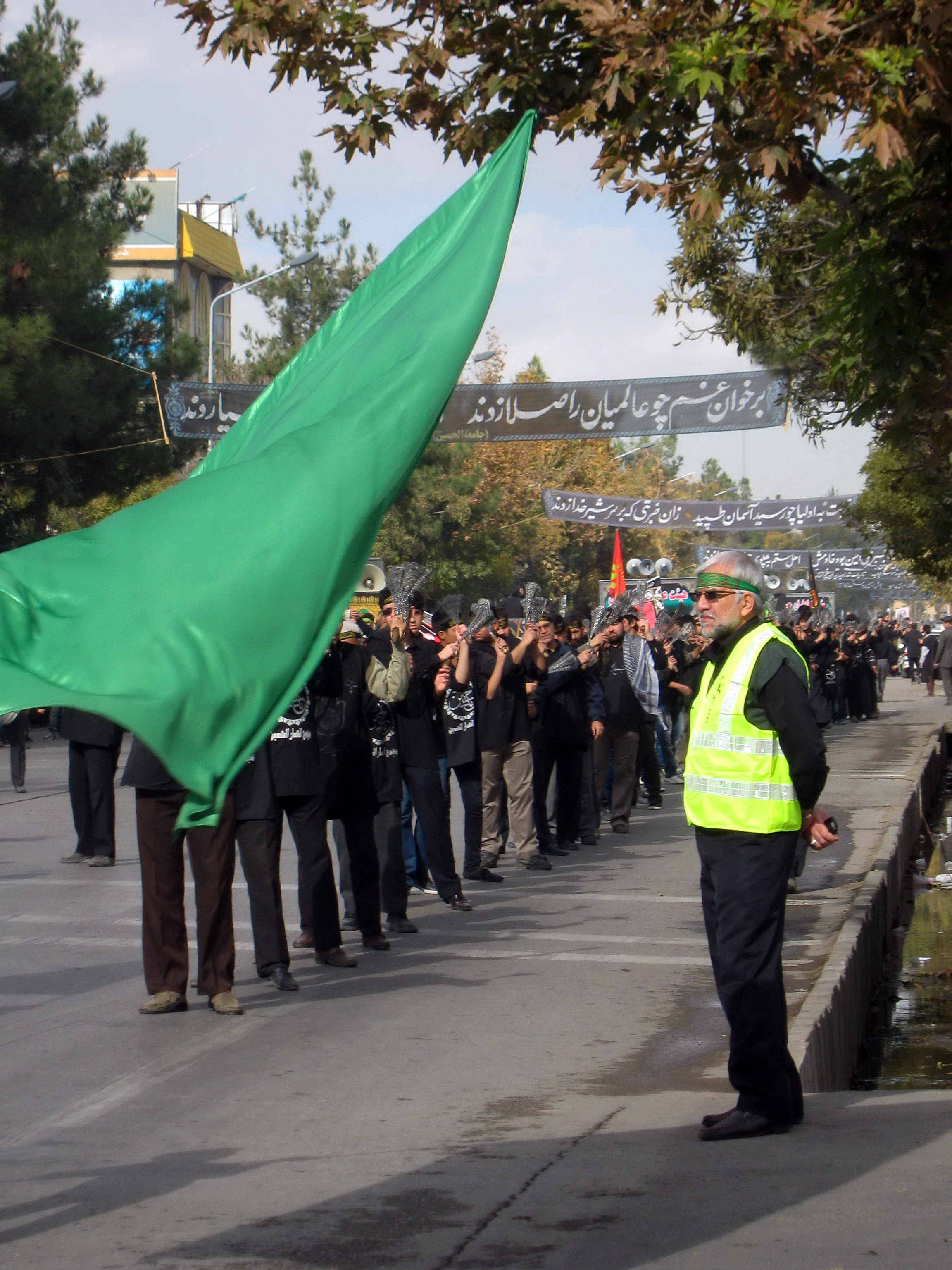 November13,2013 - Muharram 9,1435 Tasu'a - Nishapur